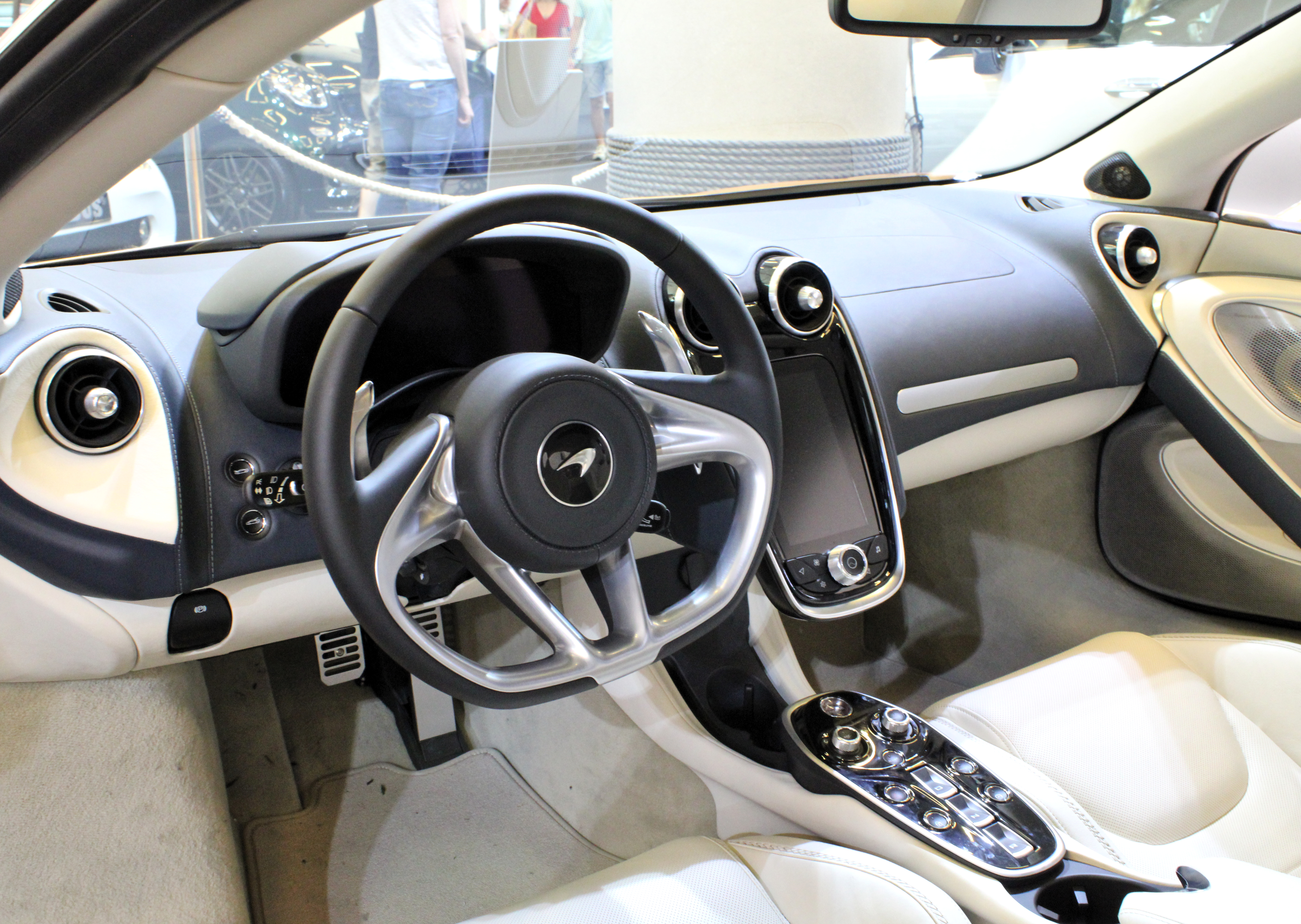 McLaren GT at Top Marques 2019